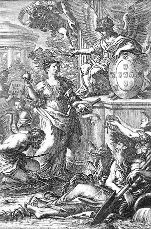 Engraving in honour of the creation of the Portuguese Academy of History (1720). Author: Vieira Lusitano. Restituet Omniae - gravura de Vieira Lusitano (1699-1783).